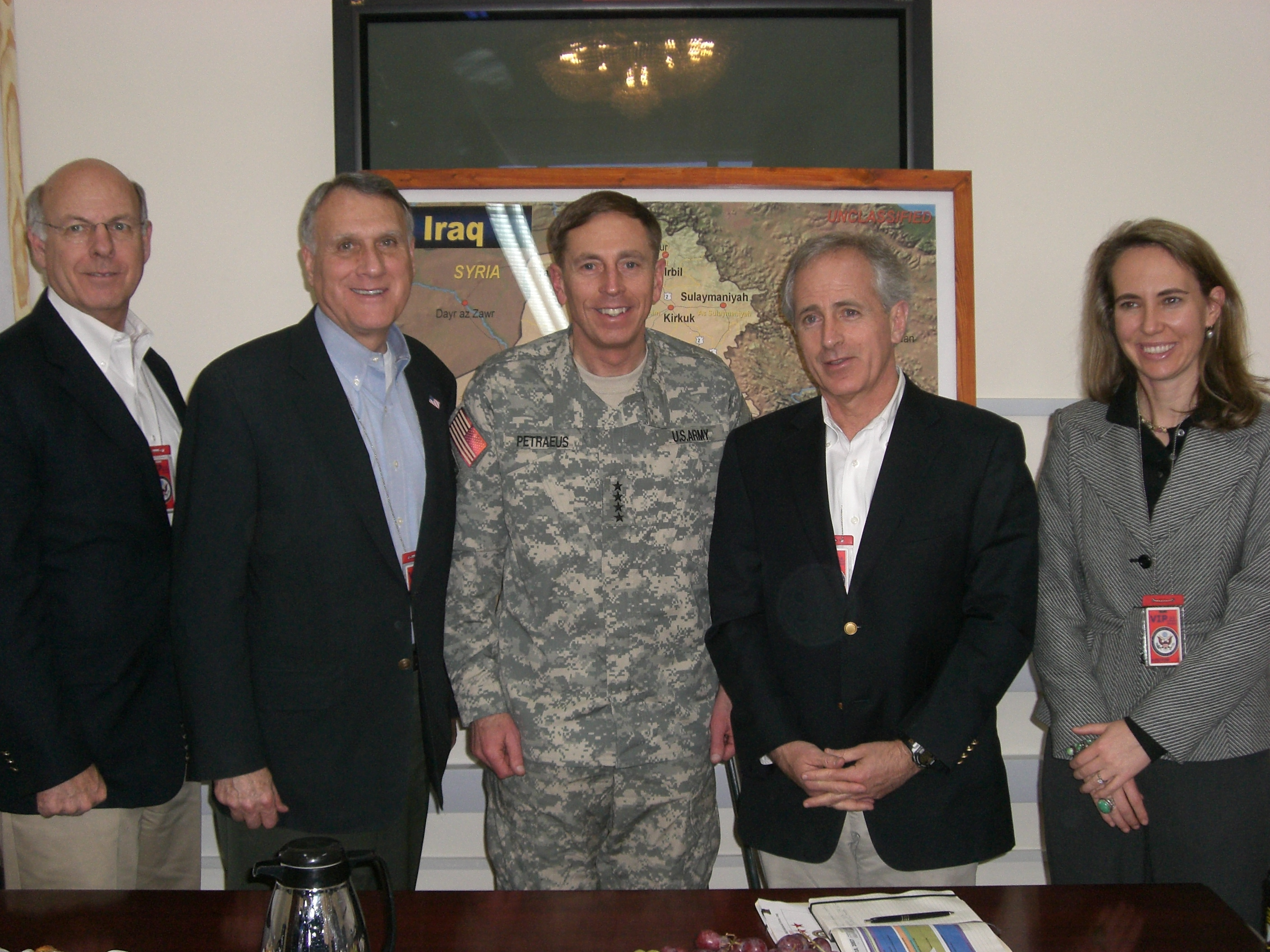 (2/18/07) Senator Bob Corker and other members of the Congressional delegation to Iraq received a briefing in Baghdad from Gen. David Petraeus, the top U.S. commander in Iraq . Pictured from left to right: U.S. Rep. Steve Pearce (R-NM), U.S. Senator Jon Kyl (R-AZ), Gen. David Petraeus, Commander Multi-National Forces-Iraq, U.S. Rep. Gabby Giffords (D-AZ).